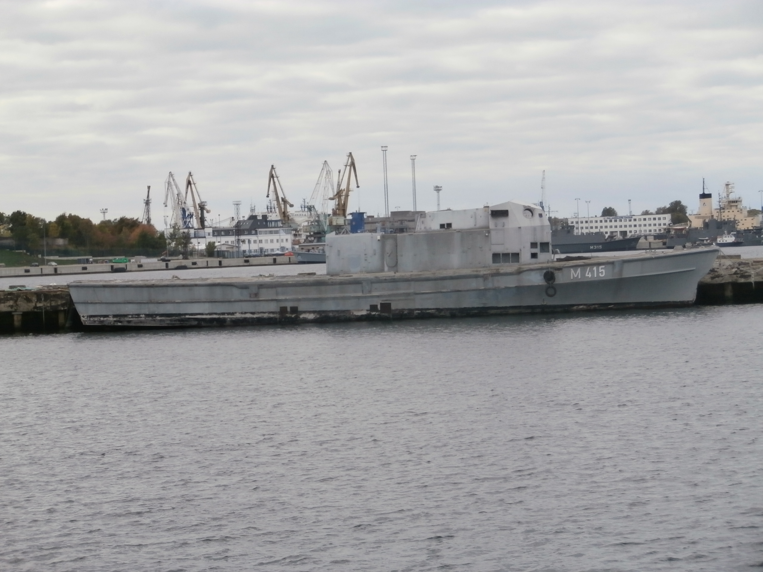 M415 Olev at quay 44 in Port Noblessner Tallinn 4 October 2013 (icebreaker Sisu in the background)